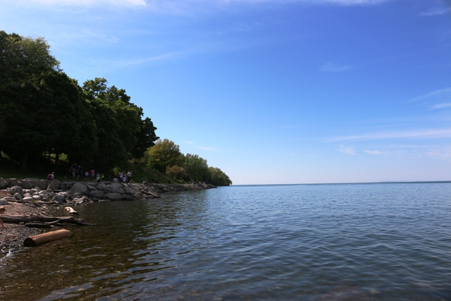 Niagara-On-the-Lake beach, June 2014